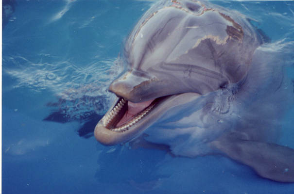 Playing with Dolfins